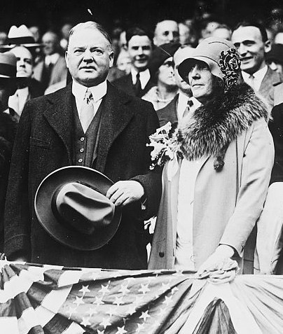 President and Mrs. Hoover attend the World Series at Shibe Park, Philadelphia. Oct. 11, 1929